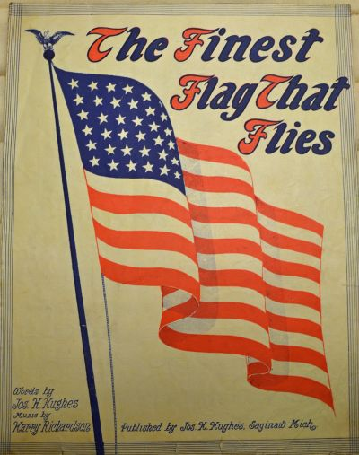 Art cover